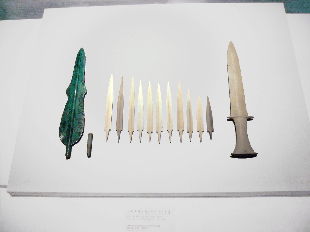 The National Museum of Korea in Seoul, South Korea